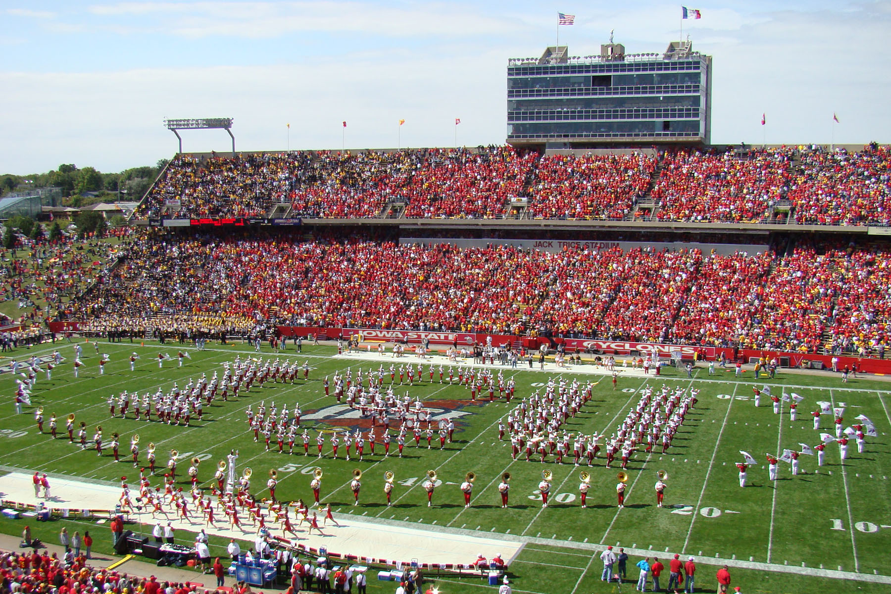 The marching band spelling "ISU" before the kickoff of the IOWA/ISU game.